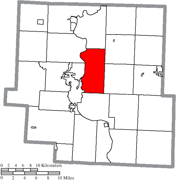 Map of the municipal and township boundaries of Muskingum County, Ohio, United States, as of the 2000 census, with the location of Washington Township highlighted. Township borders are shown only in unincorporated areas in order to differentiate incorporated and unincorporated areas more clearly.